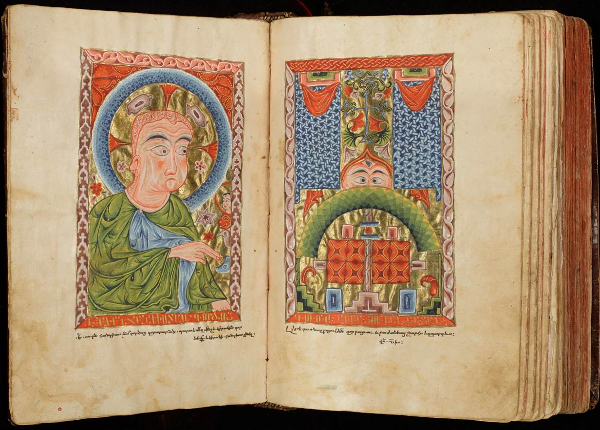 The Gates of Paradise, from a Gospel of 1587 illustrated at Julfa, the John Rylands University Library of Manchester, Arm. 20, fo.8